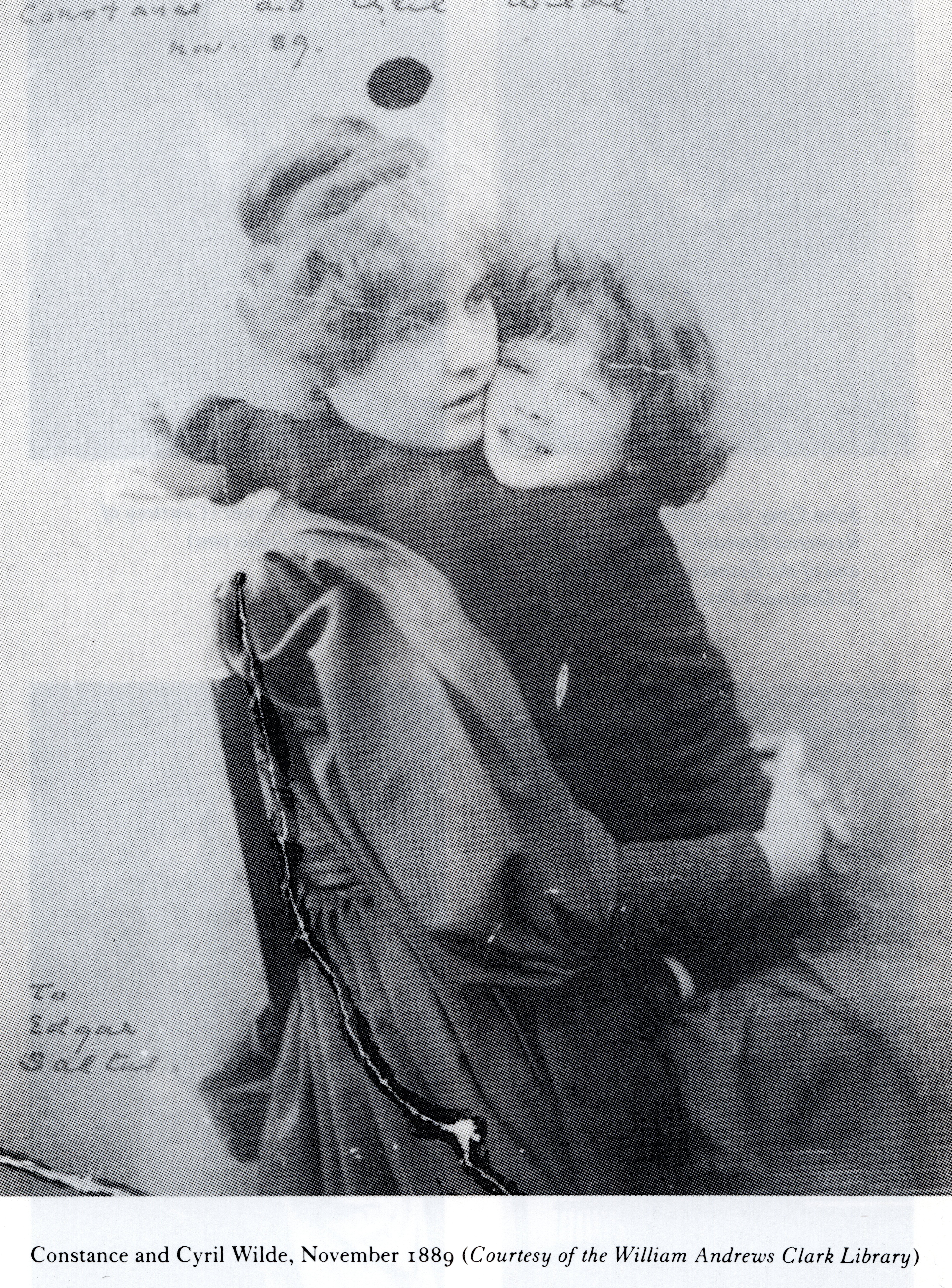 Constance and Cyril Wilde in 1889